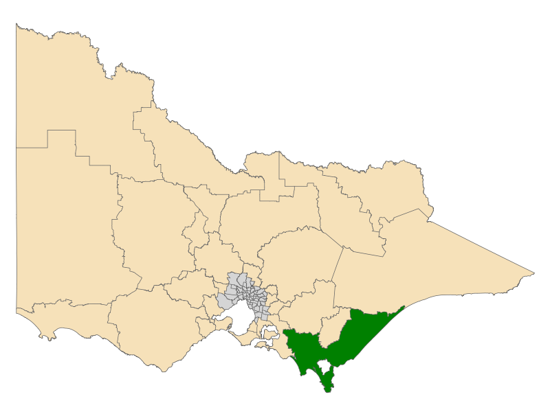 Location of the Electoral District of Gippsland South (dark green) in the state of Victoria, Australia. These boundaries were used for the Victorian state election on 29 November 2014.